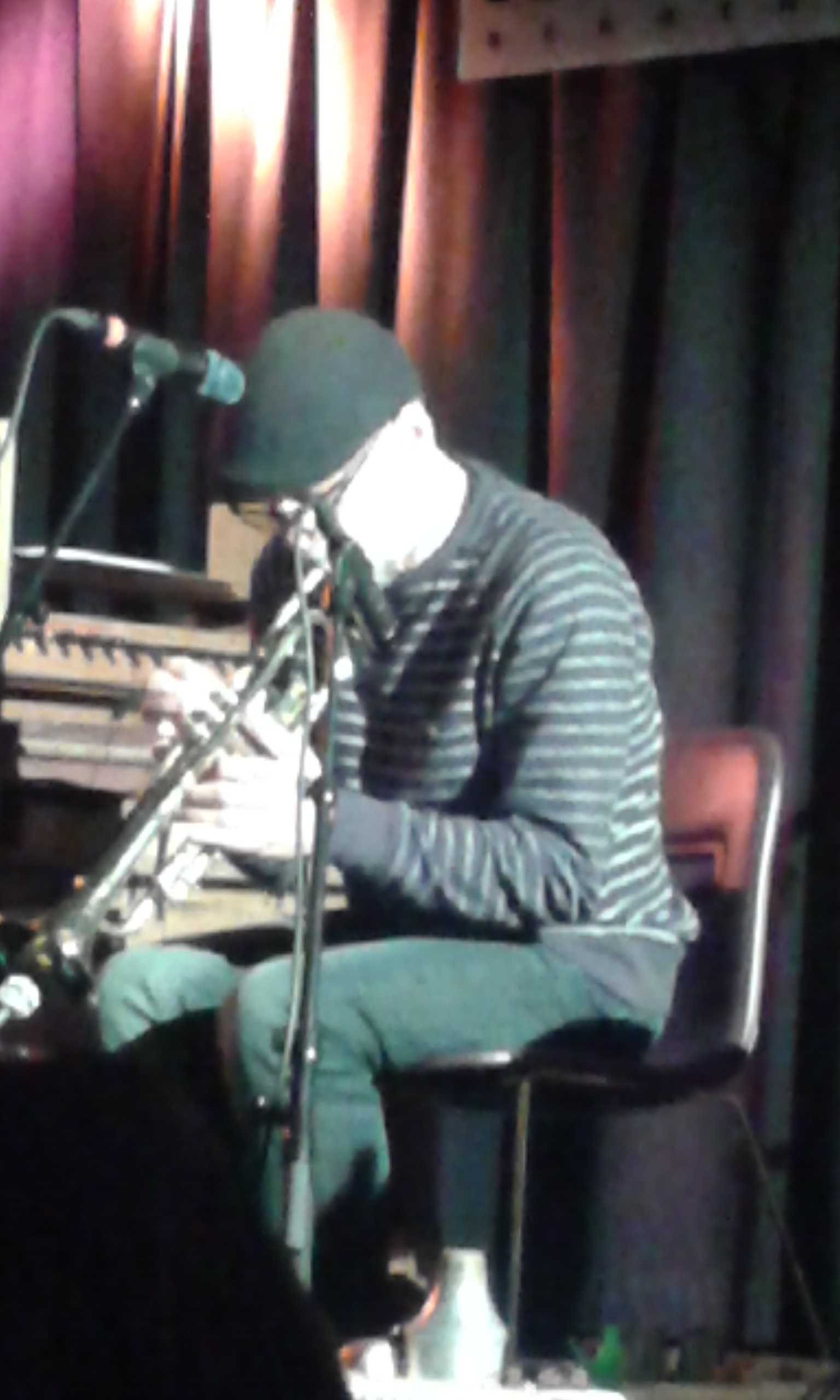 Per Jørgensen at Nattjazz May 30, 2015.jpg